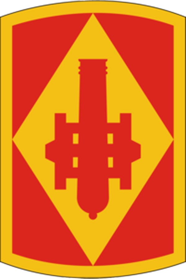 75th Fires Brigade shoulder sleeve insignia